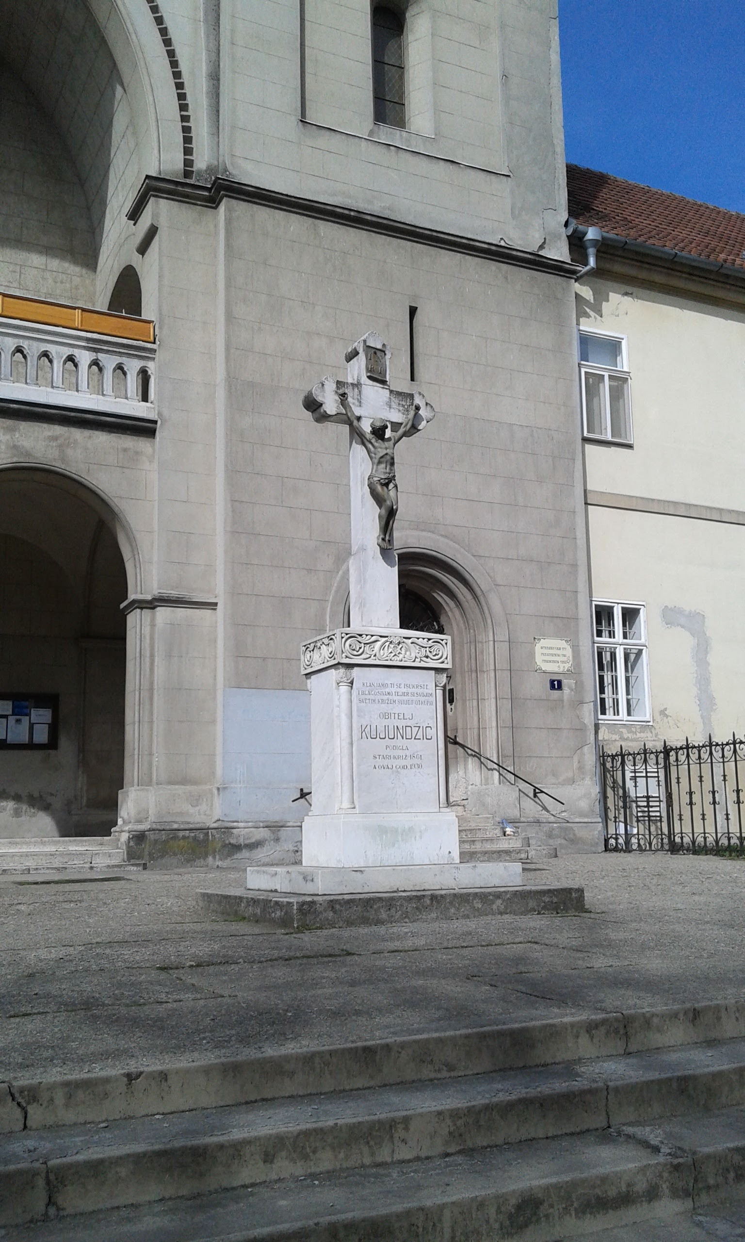 Monument of Jesus Christ in front of Franciscan Church in Subotica